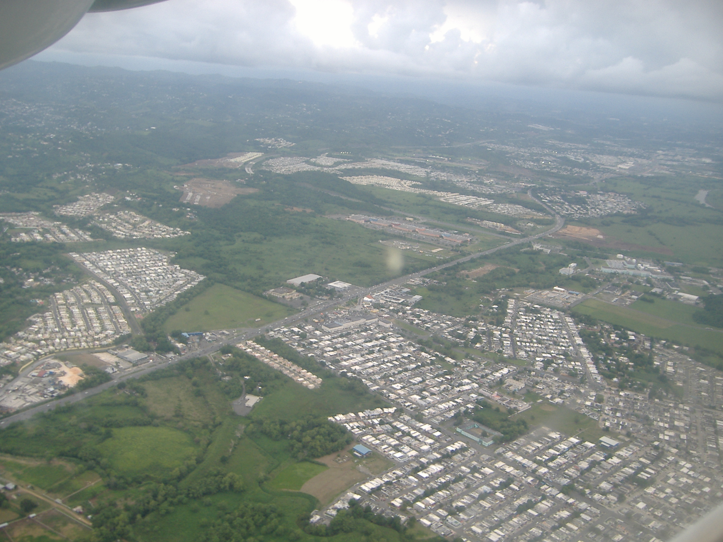 Aerial view of Canovanas, Puerto Rico.